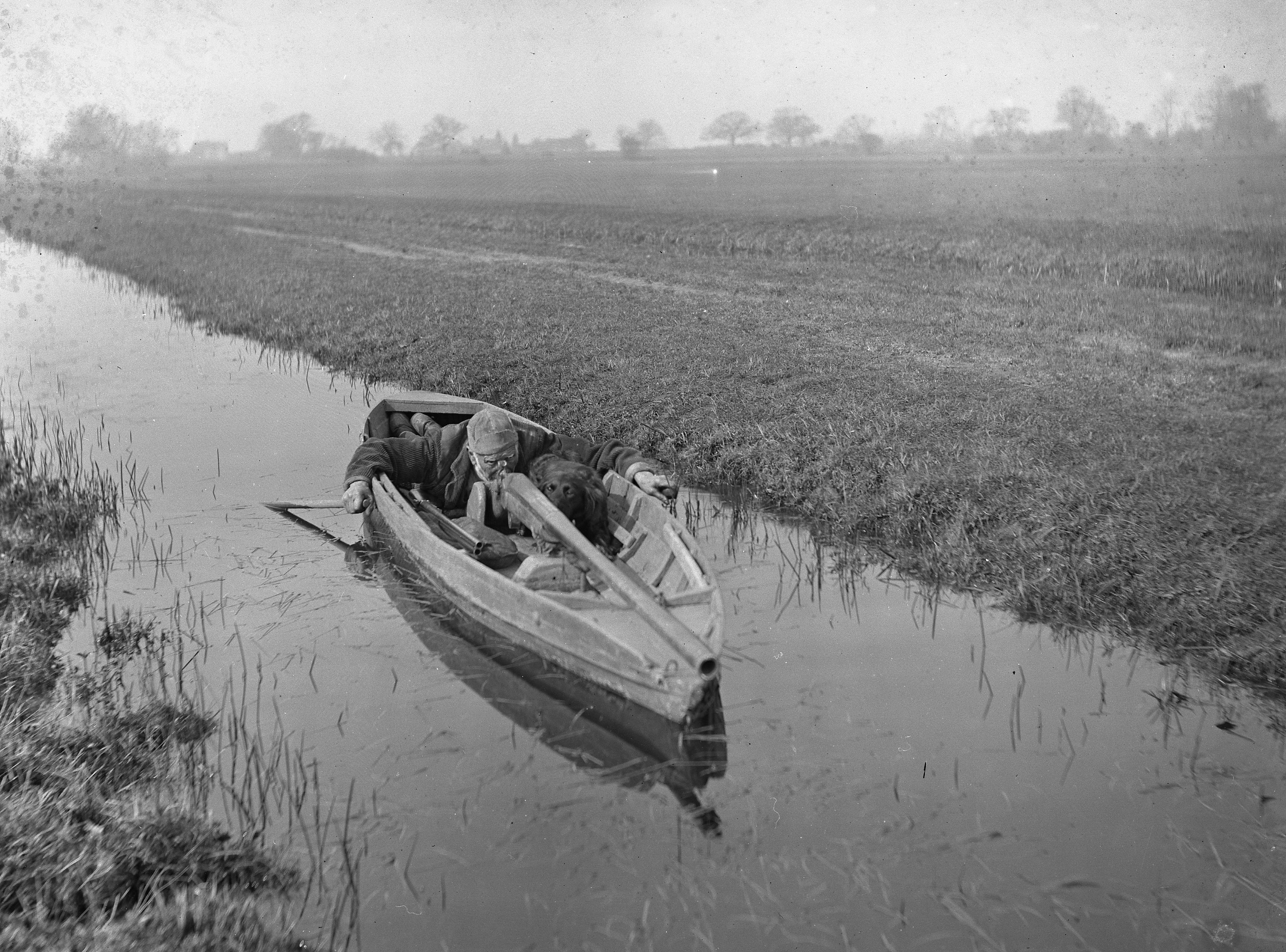 Slights' punt, possibly on a stretch of canal. Slights is lying in the punt looking down the barrel of the punt gun.